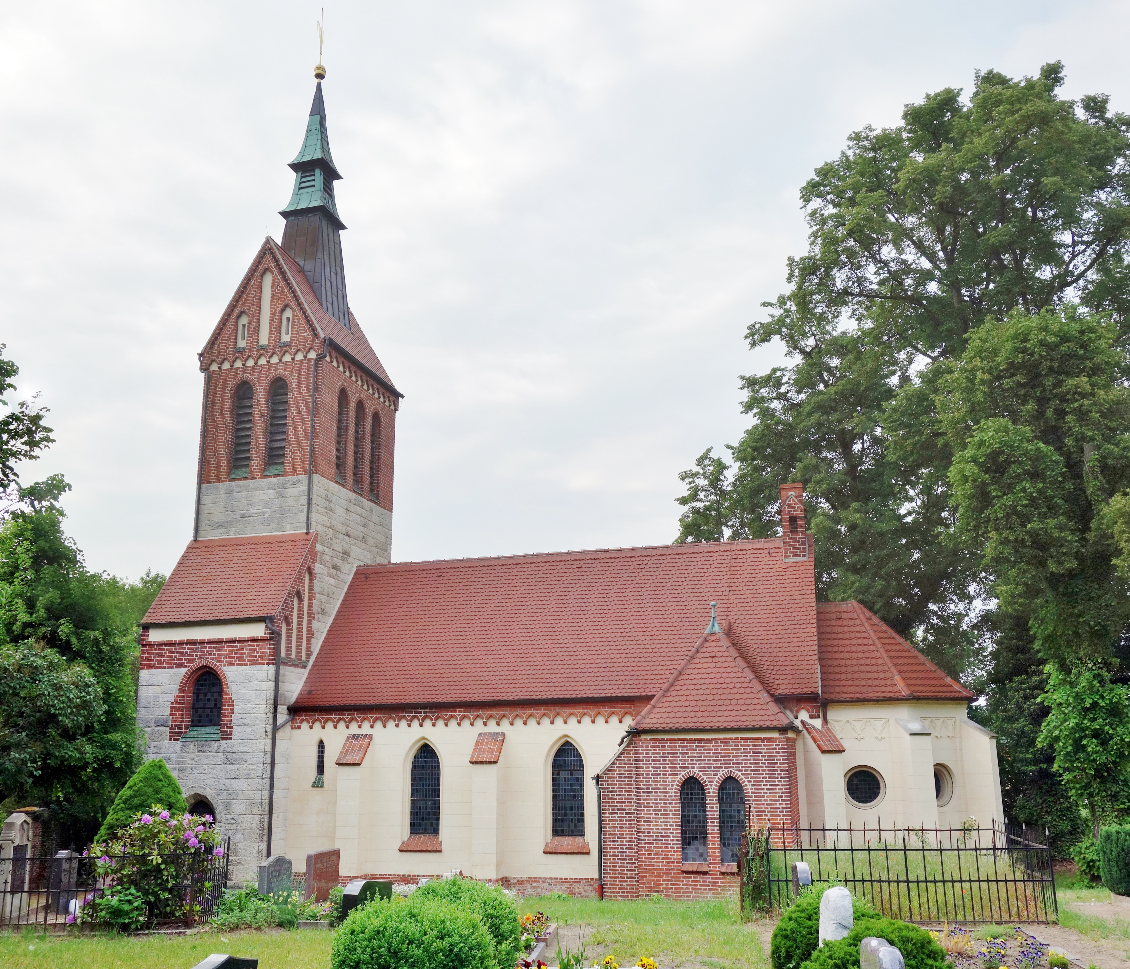 Southern view of church in Uetz, Potsdam municipality, Havelland district, Brandenburg state, Germany